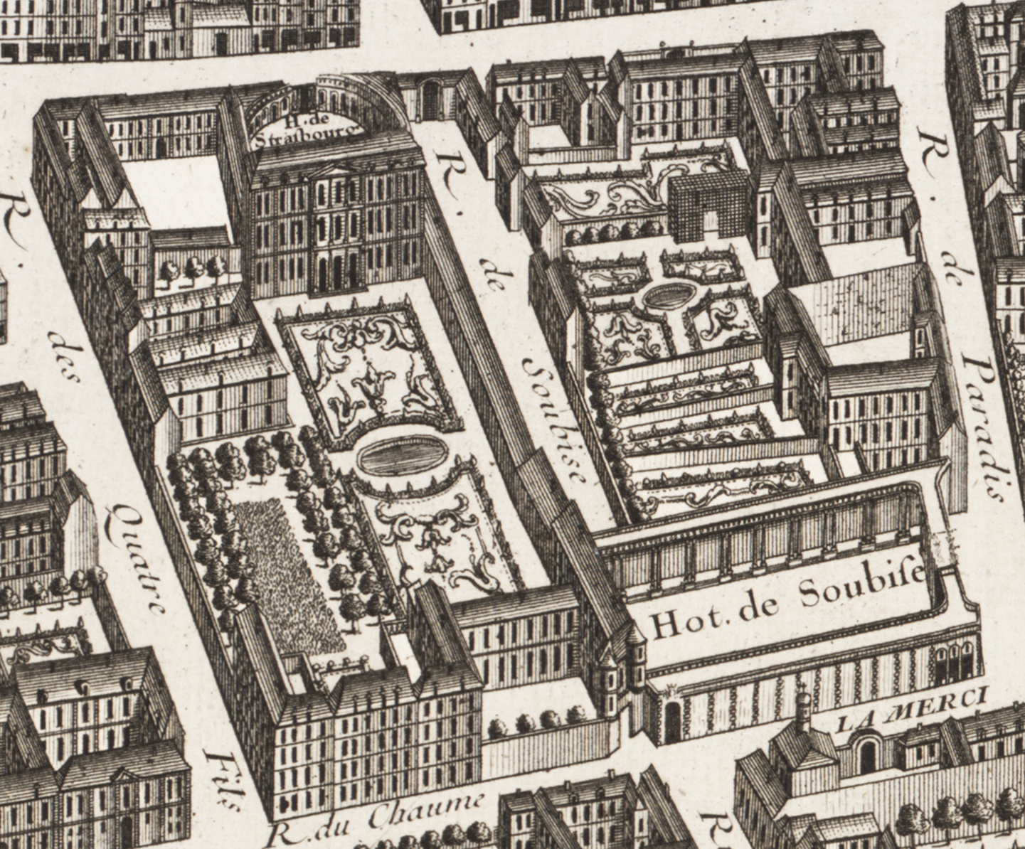 The grounds of the Hôtel de Soubise and Hôtel de Strasbourg (present Hôtel de Rohan) from the Turgot map of Paris circa 1737